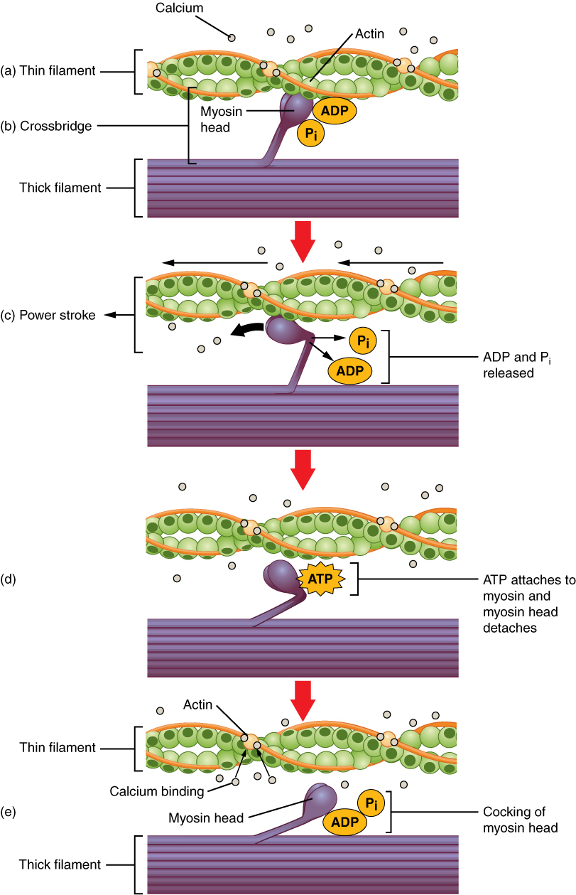 Version 8.25 from the Textbook OpenStax Anatomy and Physiology Published May 18, 2016